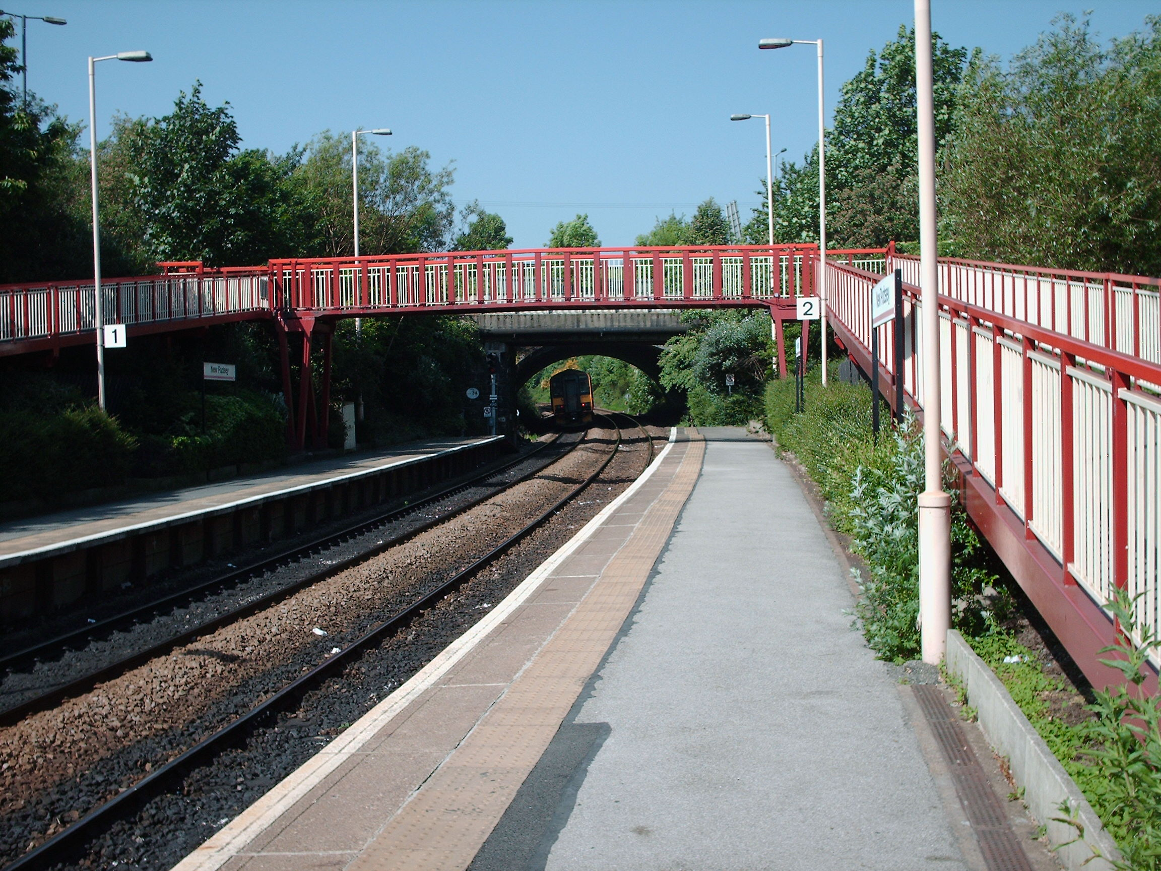 New Pudsey railway station, West Yorkshire, England. Diesel Multiple Unit 155343 has just left and is passing under the road bridge.